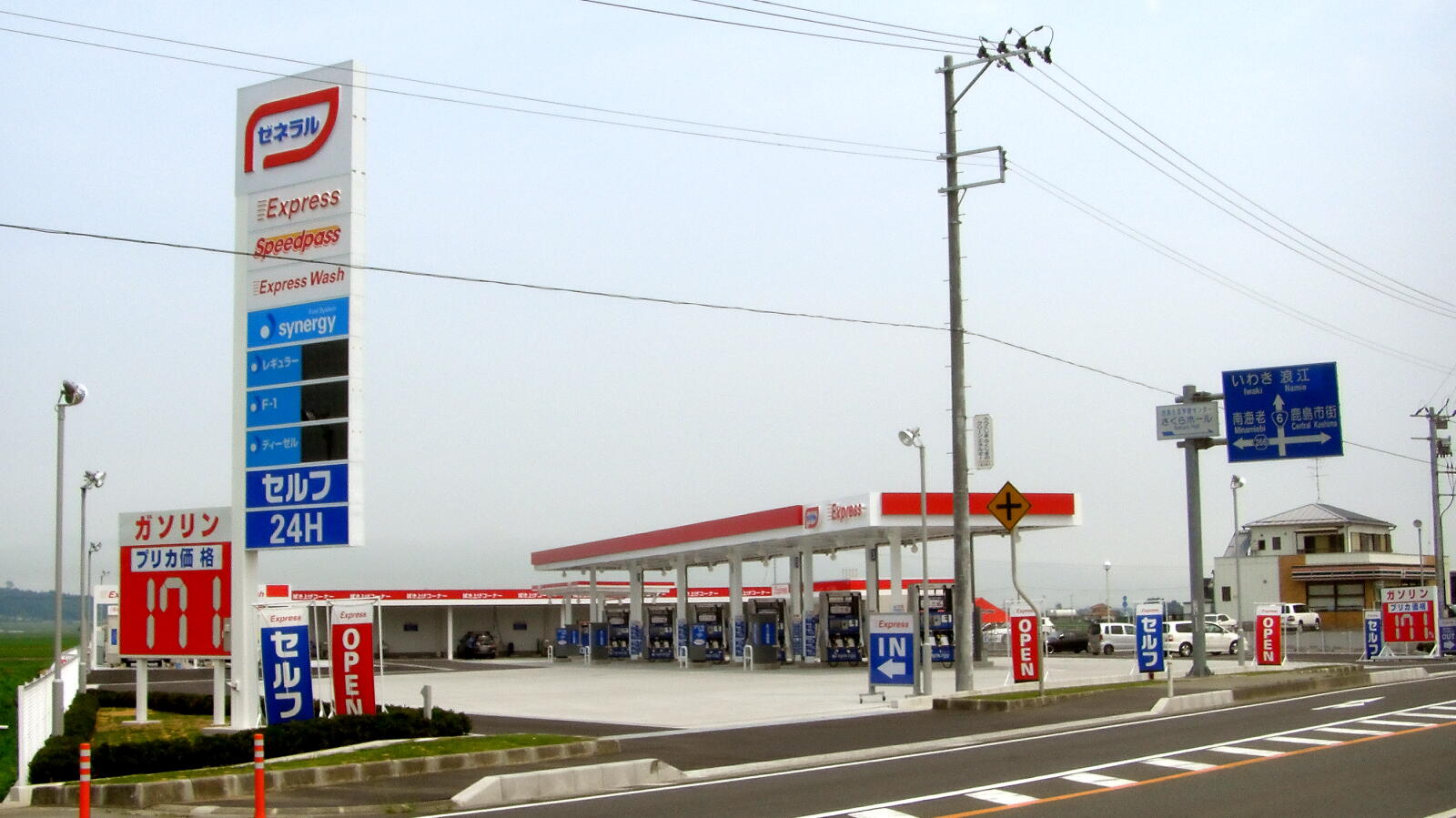 General Express Minamisomakashima Service station